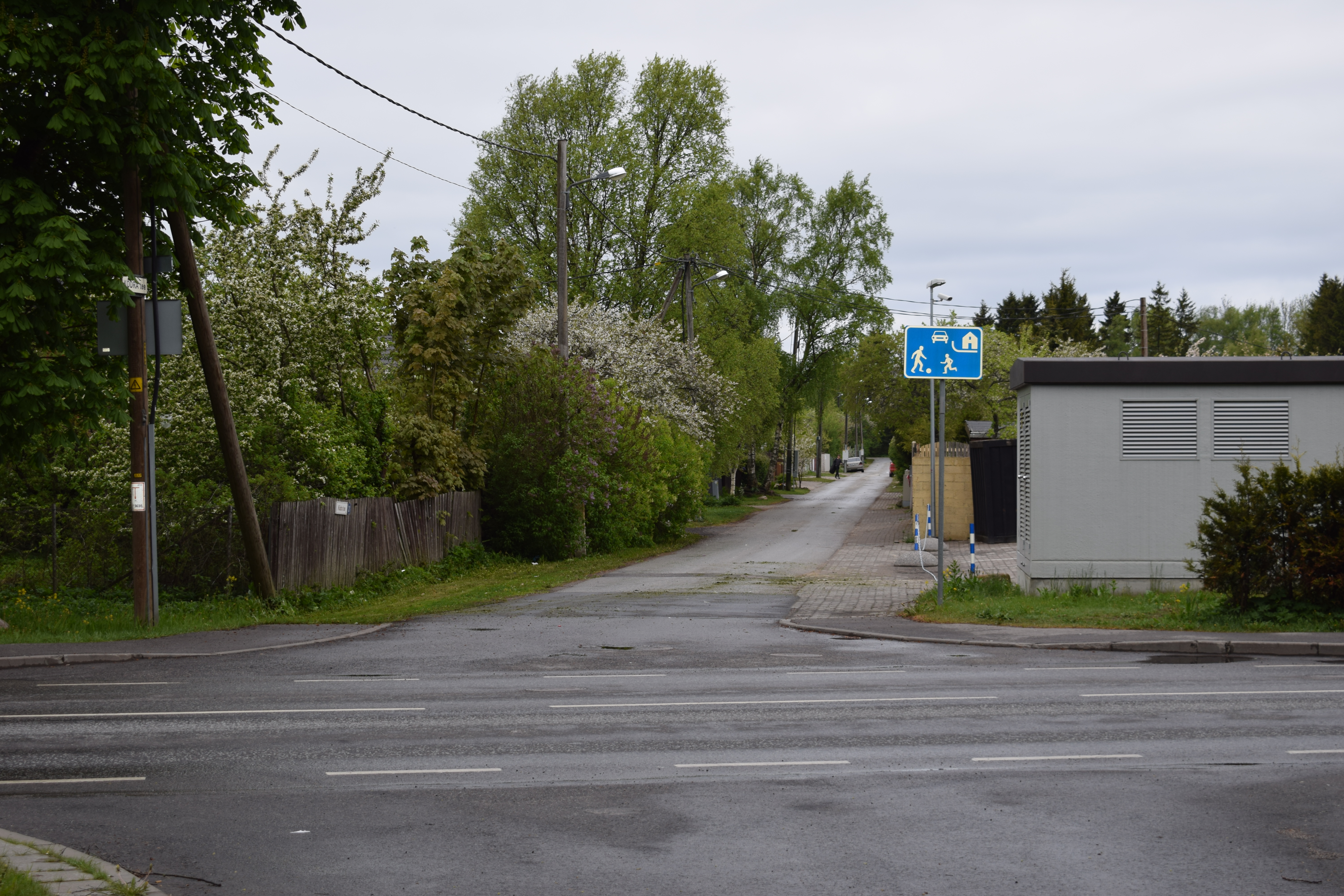 Kõdra tee